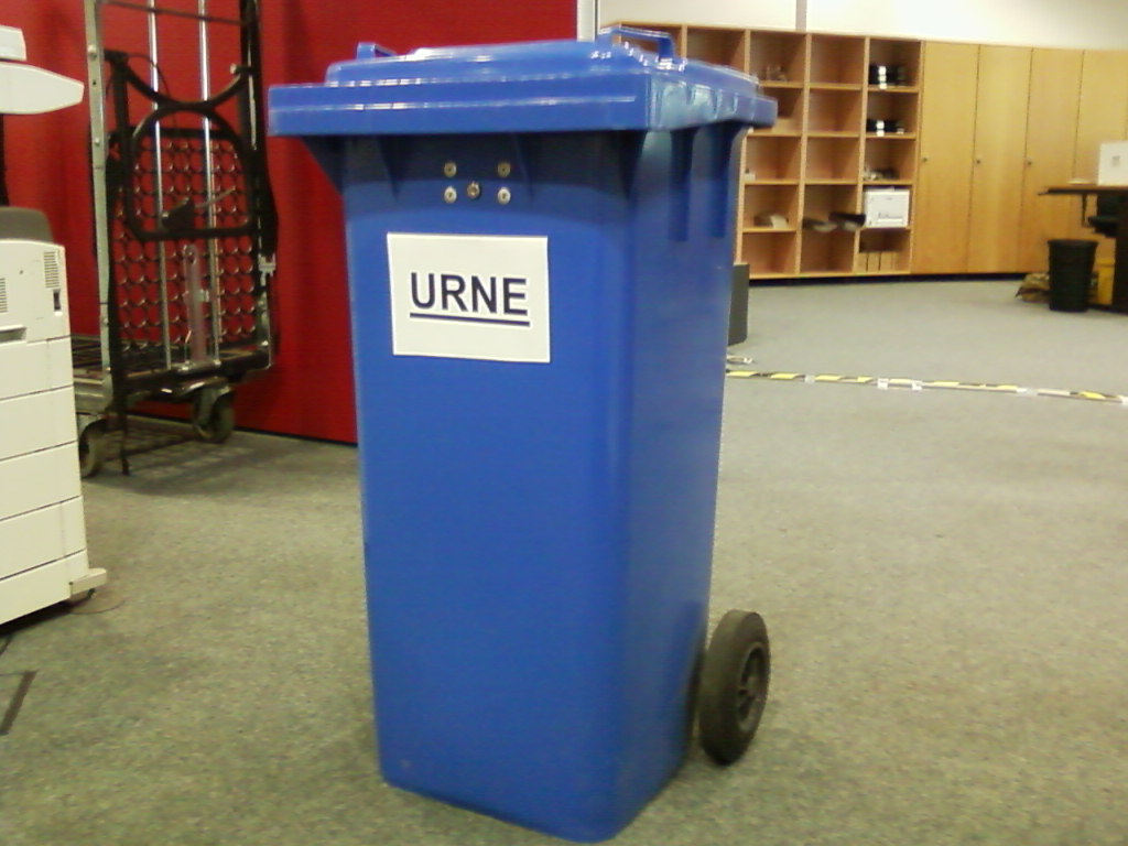 Election ton; Recycling bin as ballot box for the German federal election, 2017; Central electoral office in the technical town hall of the City of Bochum, North Rhine-Westphalia, Germany